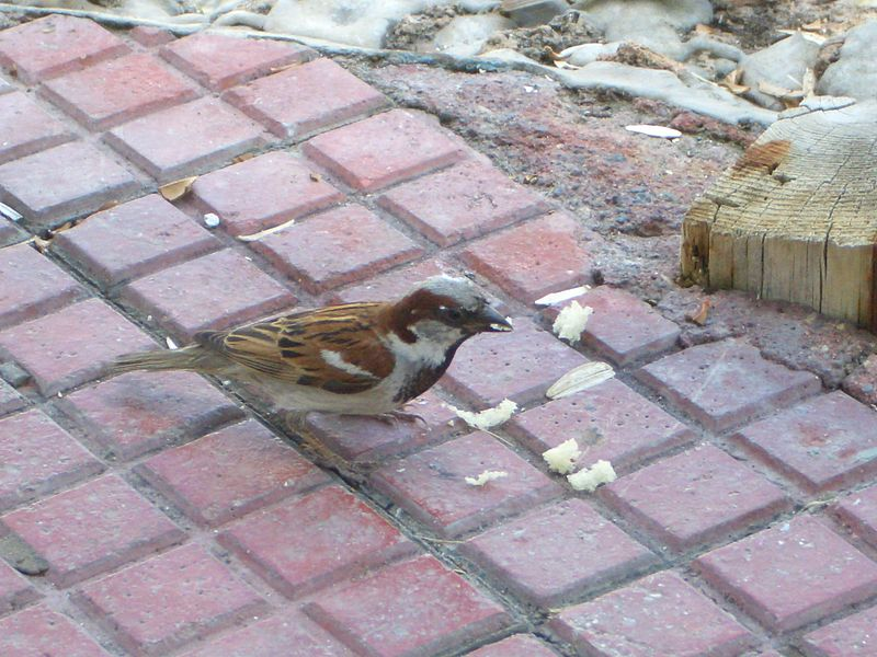 Sparrow eating.